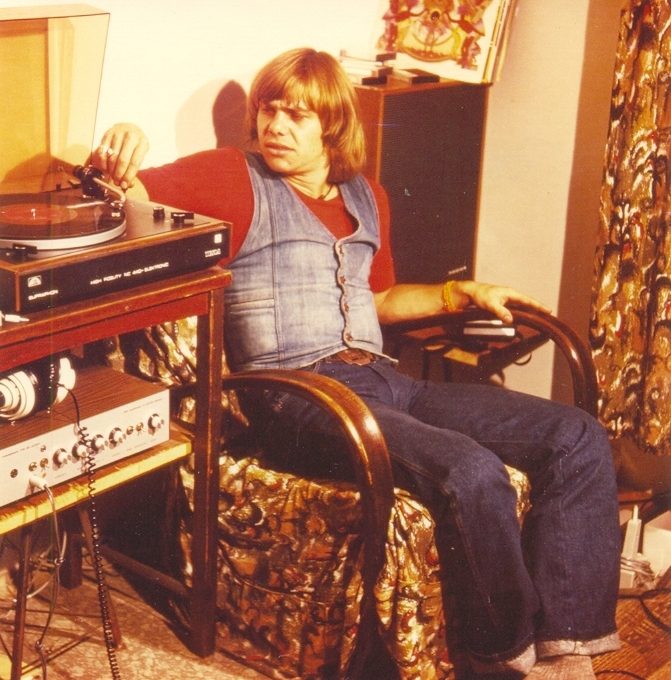 Czech musican Jiří Schelinger at home